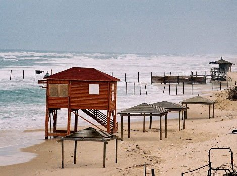 A Gush Katif beach, Gaza Strip.